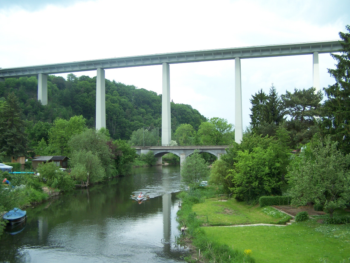 The estuary of the Hörsel in Werra river, in the background the Werra-Bridges near Hörschel village.